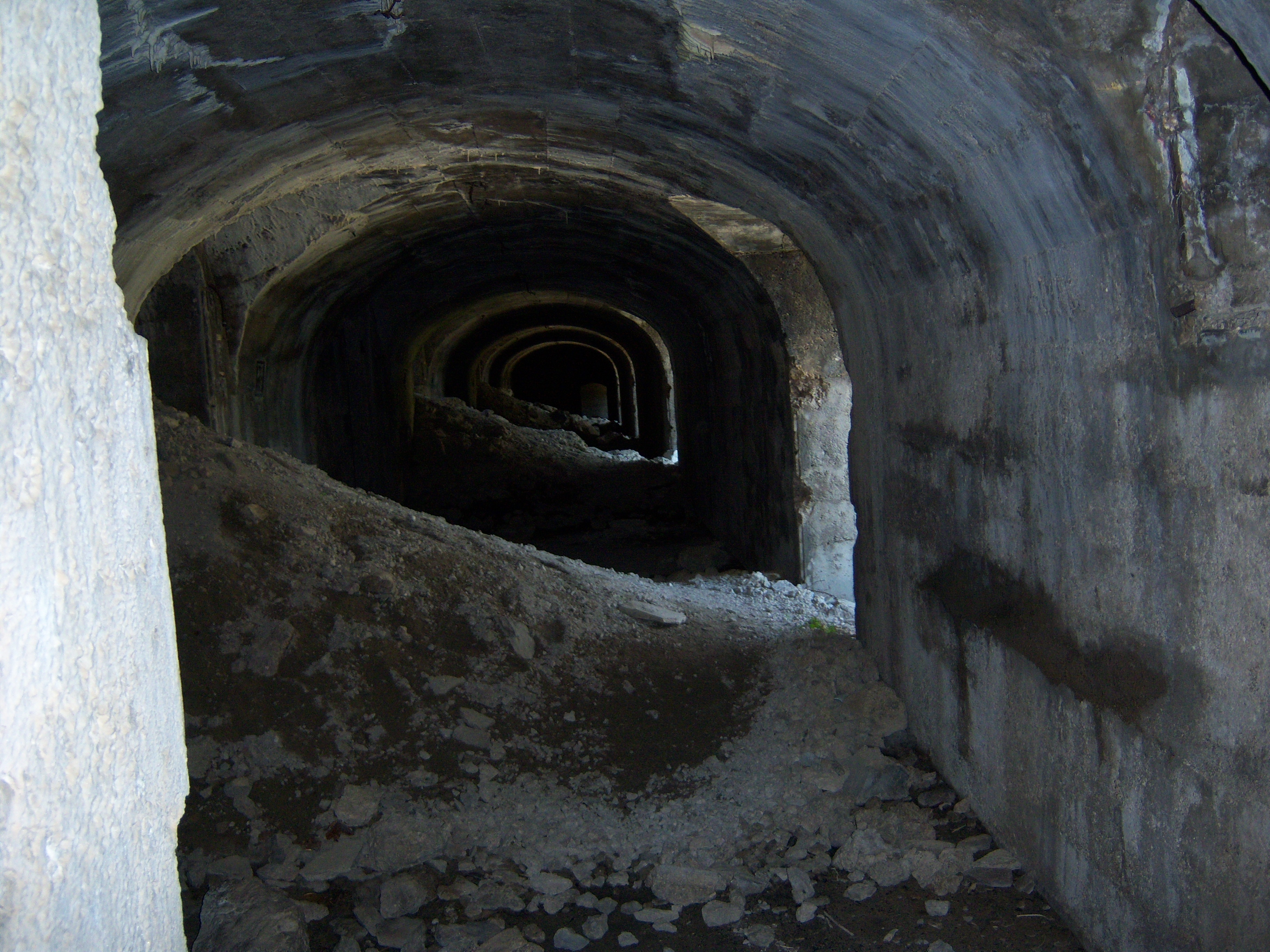 Interior of the ground floor gallery of Pramand's Fort